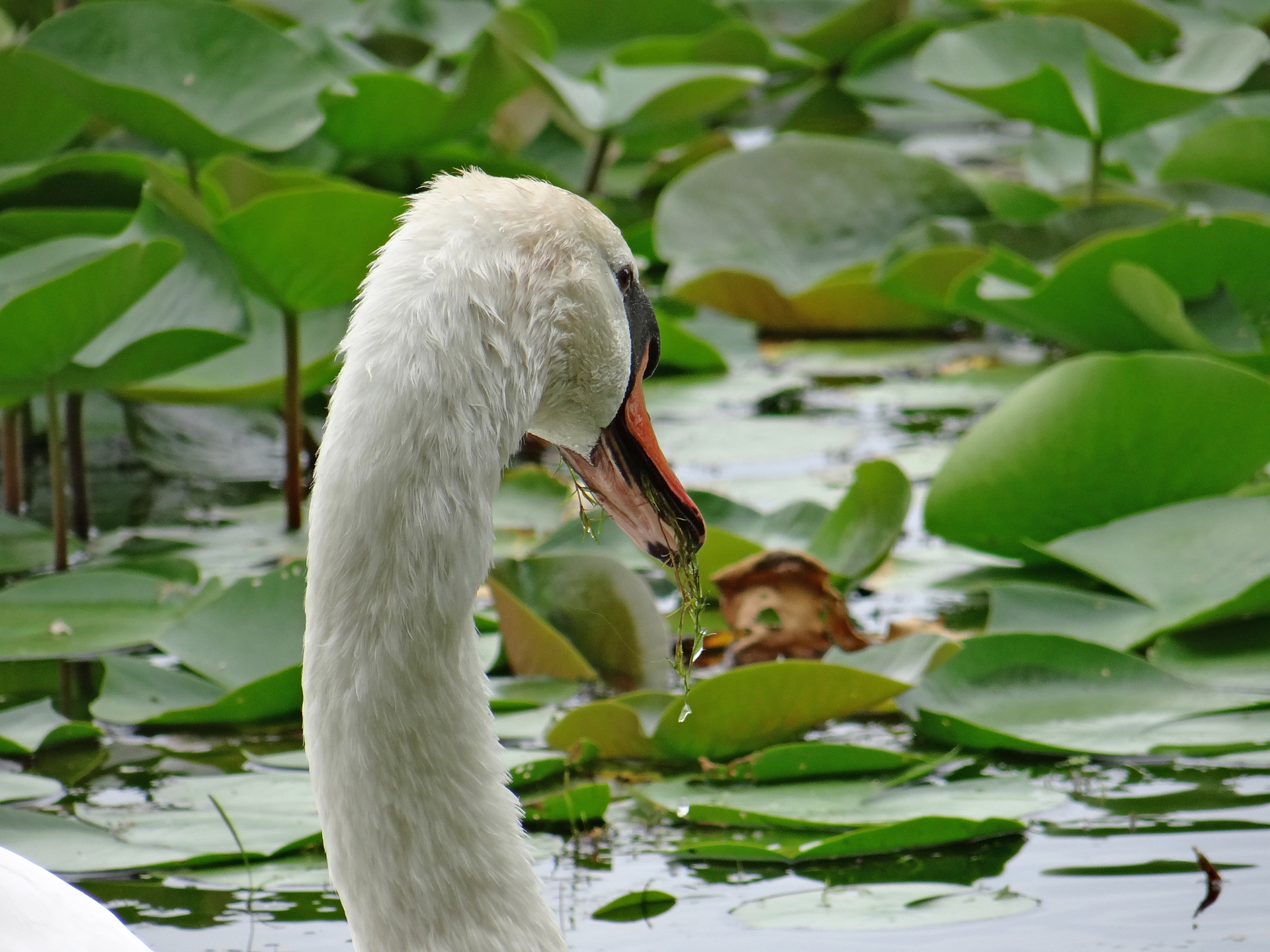 A swan eating at Lake Katherine Nature Center in Illinois.